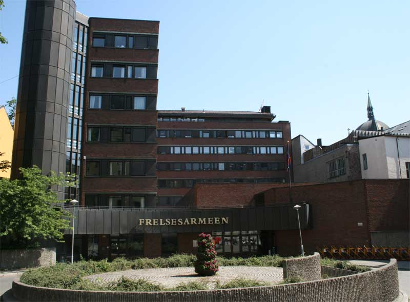 Salvation Army Norwegian Headquarters in Oslo